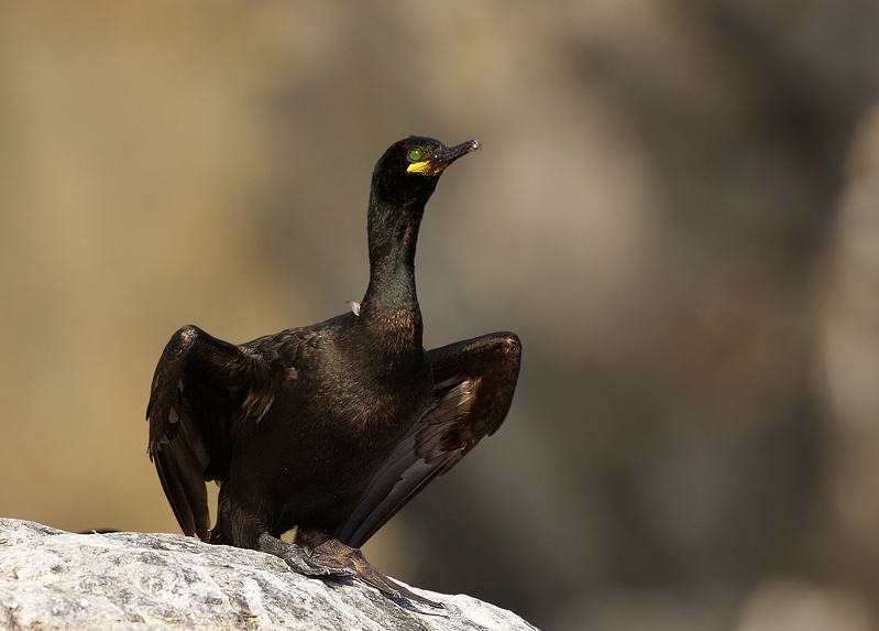 Phalacrocorax aristotelis, Runde, Norway